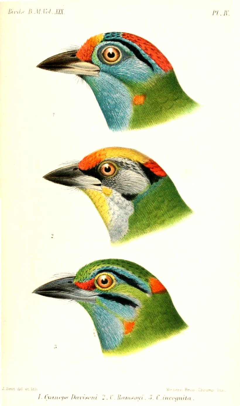 Heads of three Asian barbets: Cyanops davisoni = Megalaima asiatica davisoni Blue-throated Barbet ssp. (top); Cyanops ramsayi = Megalaima franklinii ramsayi Golden-throated Barbet ssp.(middle); and Cyanops incognita = Megalaima incognita Moustached Barbet (bottom)